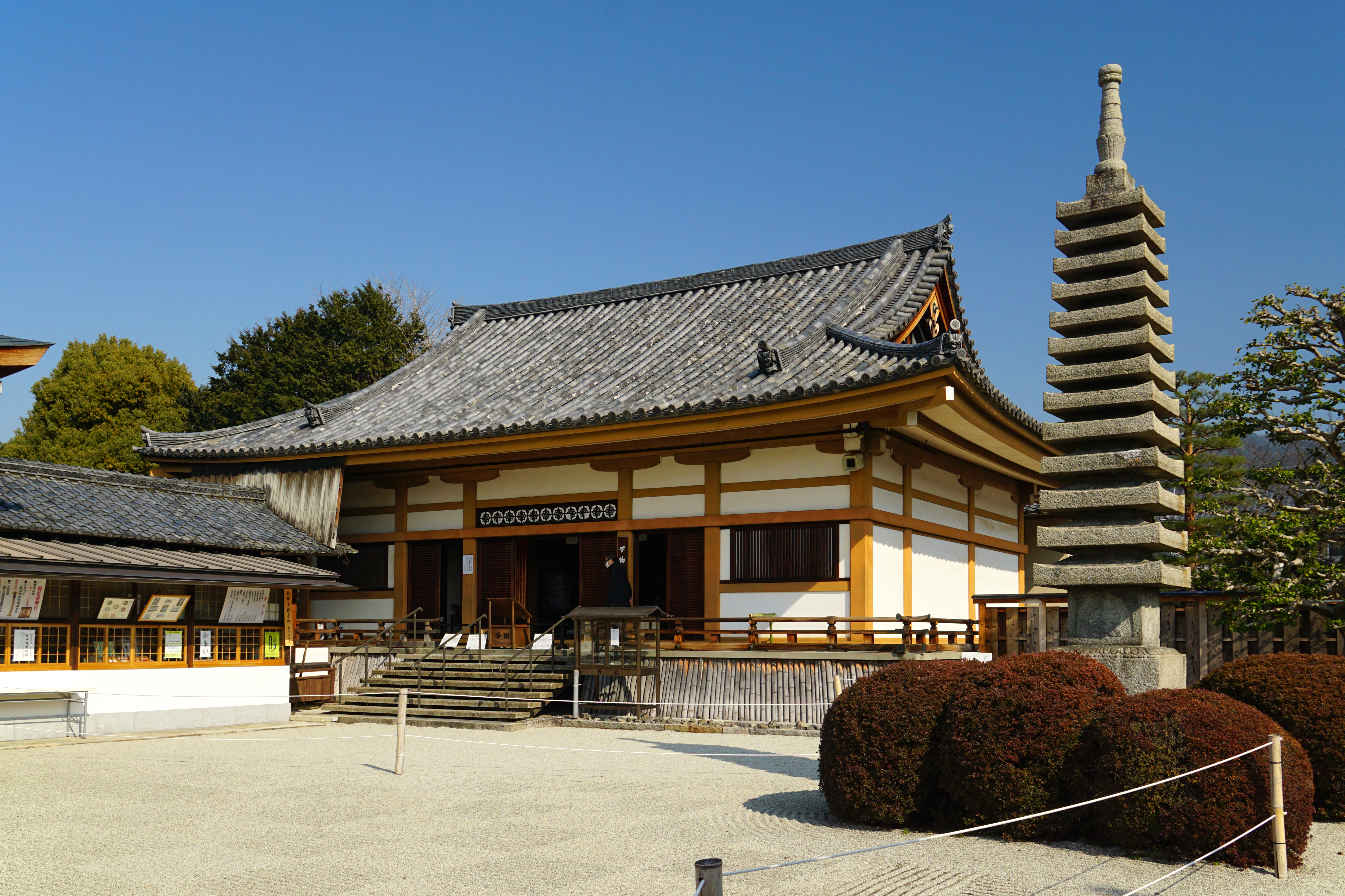 Shogoin in Kyoto, Kyoto prefecture, Japan